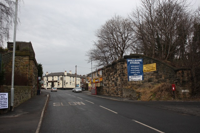 Shill Bank Lane Bridge Abutments, Northorpe The bridge carried the Leeds New Line of the London & North Western Railway over Shill Bank Lane. There were two stations next to the bridge : Northorpe Station to the right and Northorpe Higher Station to the left.